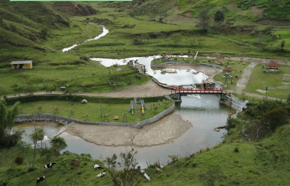 balneario